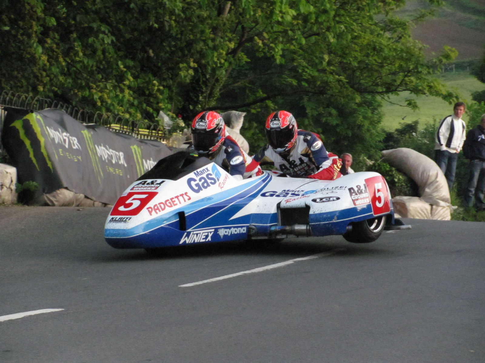 Klaus Klaffenbock and his co-rider on a Louis Christen Racing sidecar at Ballaugh Bridge during 2010 Isle of Man TT